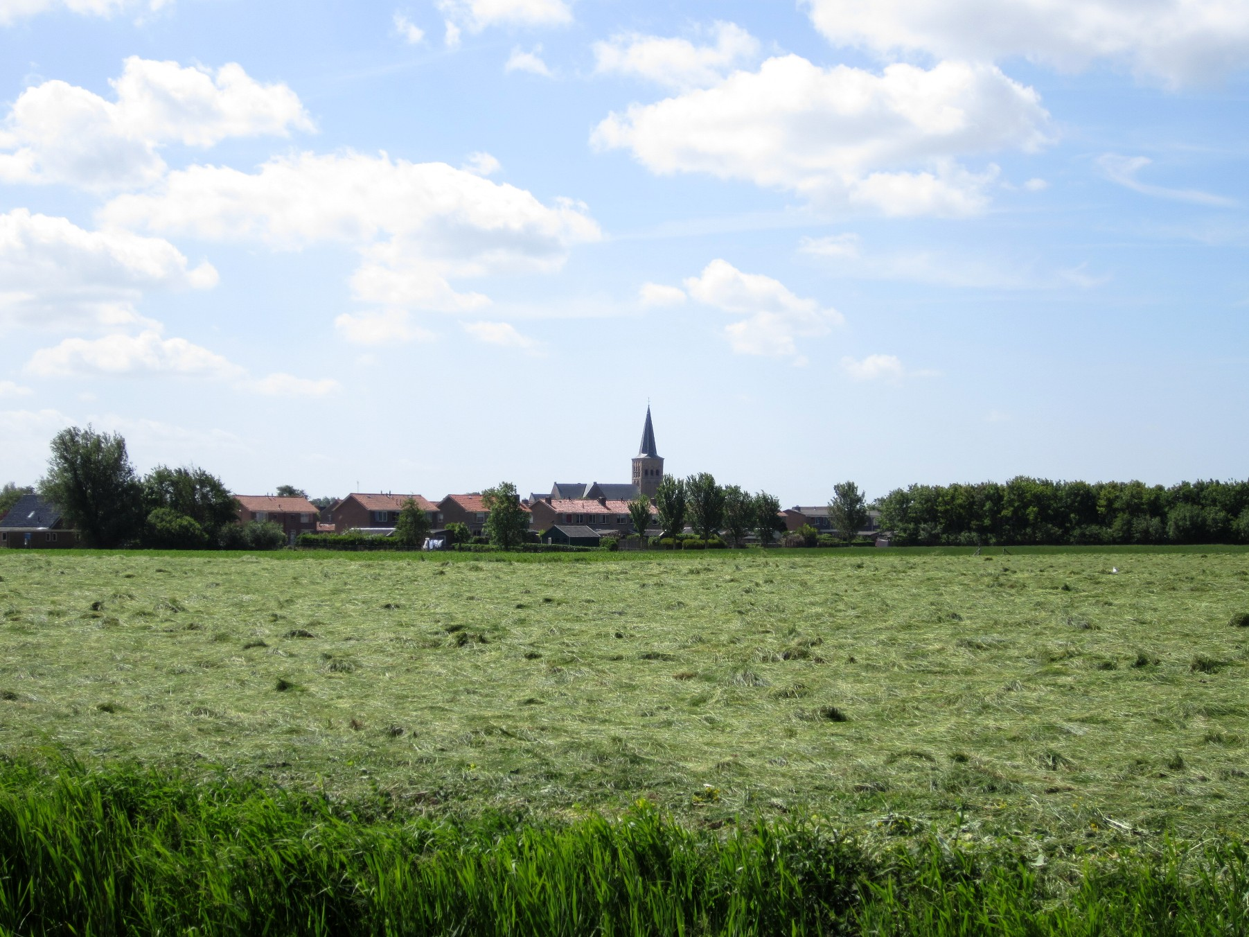 The village of Tsjummearum (Tzummarum), Friesland, the Netherlands, as viewed from the direction of Furdgum (Firdgum).